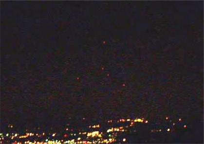 particular of File:Morristown UFO January 2009.jpg